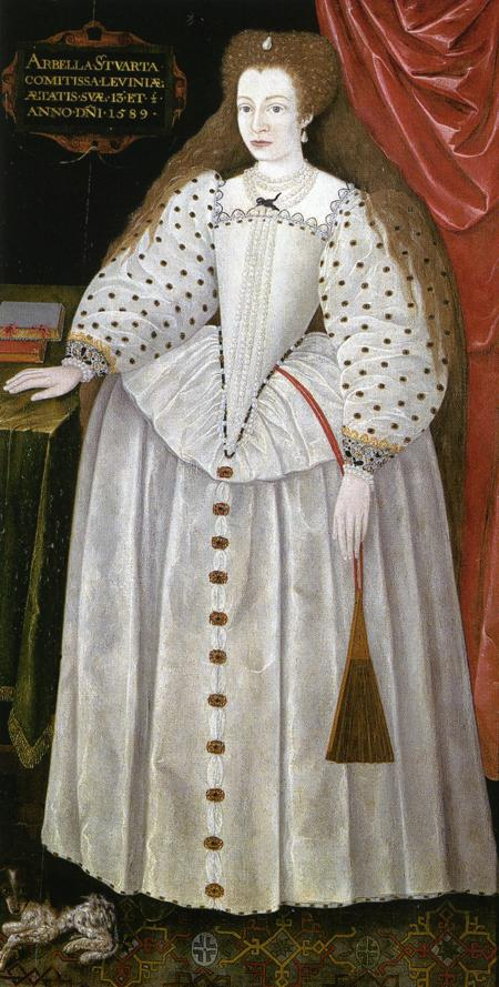 Lady Arbella Stuart, cousin of King James I of England, at the age of 13.